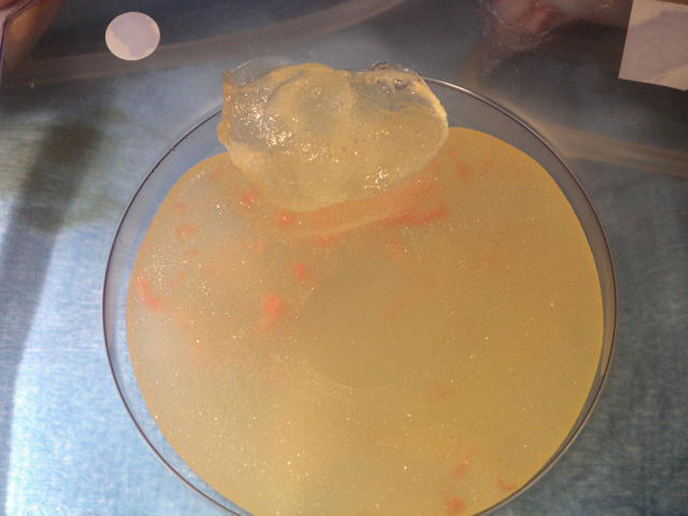 Implant rupture with extrusion of the high cohesive gel into the upper pole.